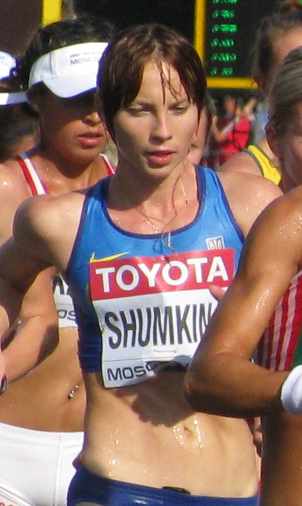 Women's 20 kilometres walk at the 2013 World Championships in Athletics